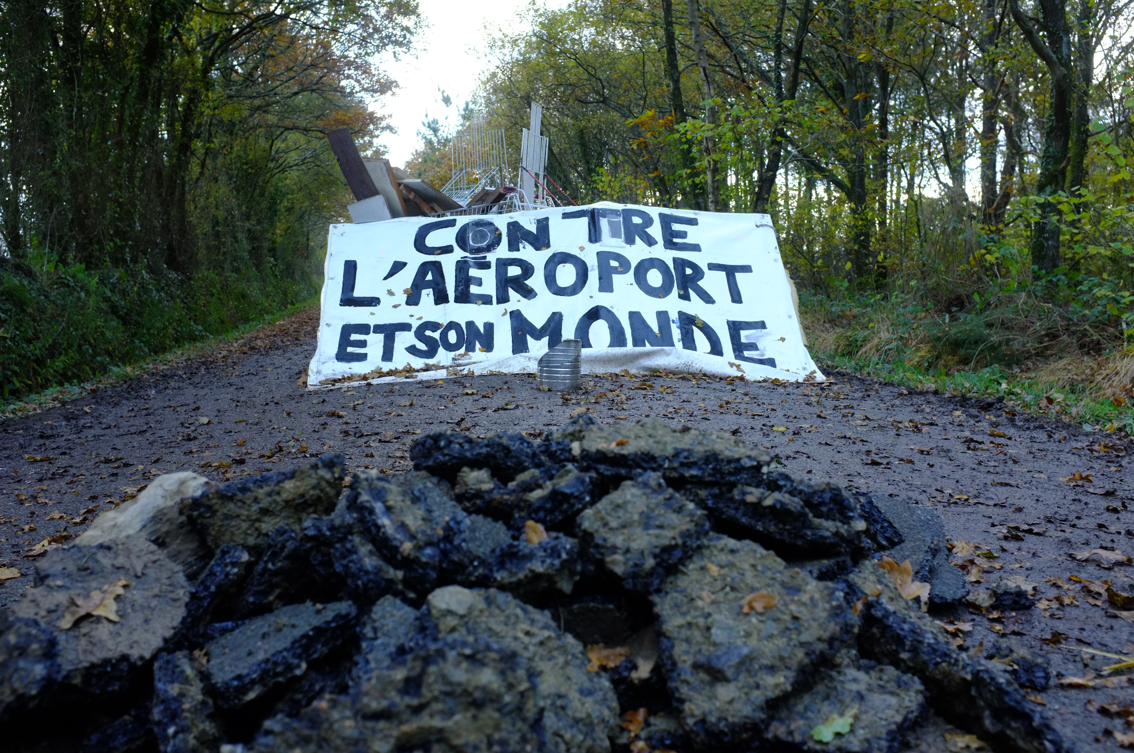 A barricade at the Notre-Dame-des-Landes ZAD. The banner reads: AGAINST THE AIRPORT AND ITS WORLD